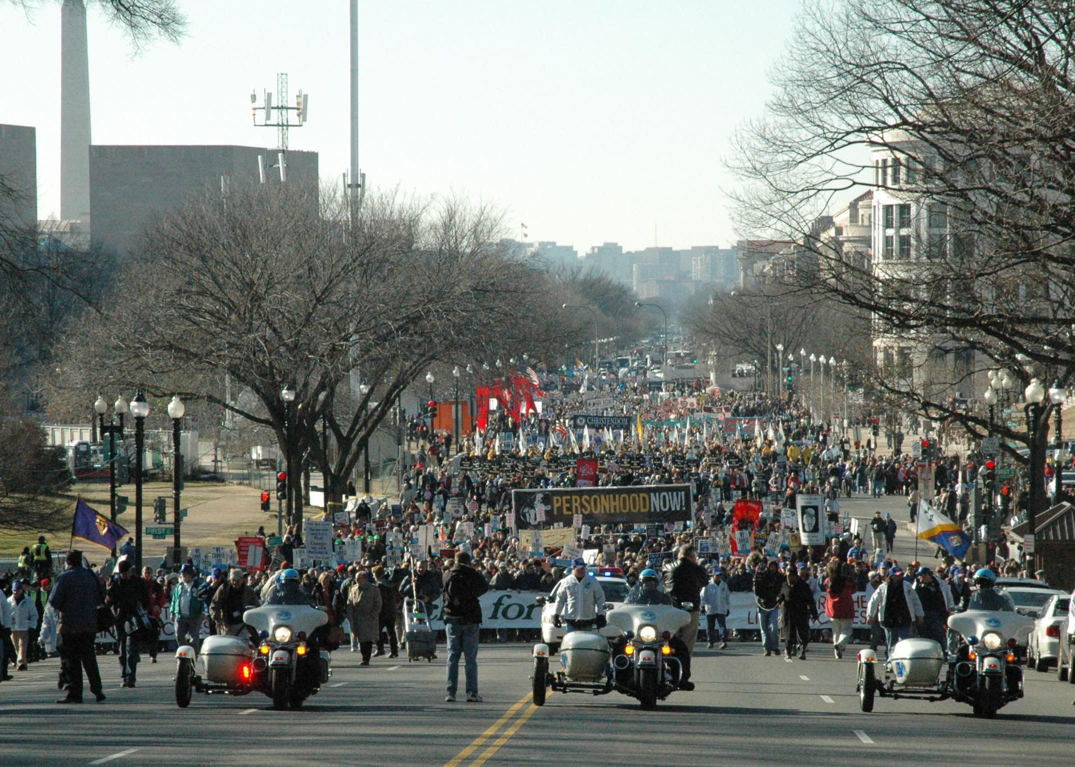 March for Life crowd shot of the beginning of the march in Washington, D.C. taken January 22, 2009. This year's weather was 42 degrees and clear, bringing crowds in the tens of thousands, according to the Associated Press and upward of 420,000 (estimated by American Life League’s crowd counters).[citation needed]